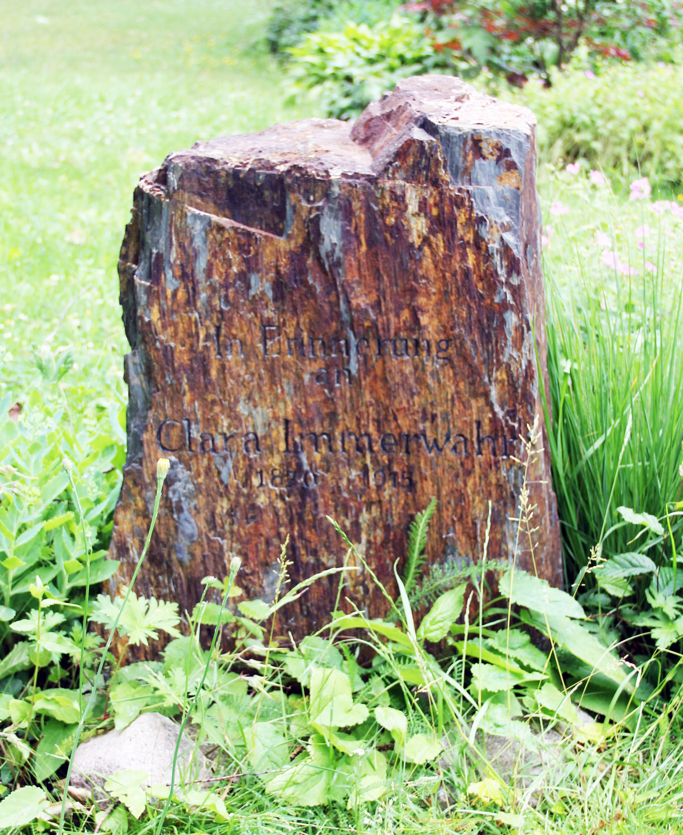 Memorial stone, Clara Immerwahr, Faradayweg 8, Berlin-Dahlem, Germany